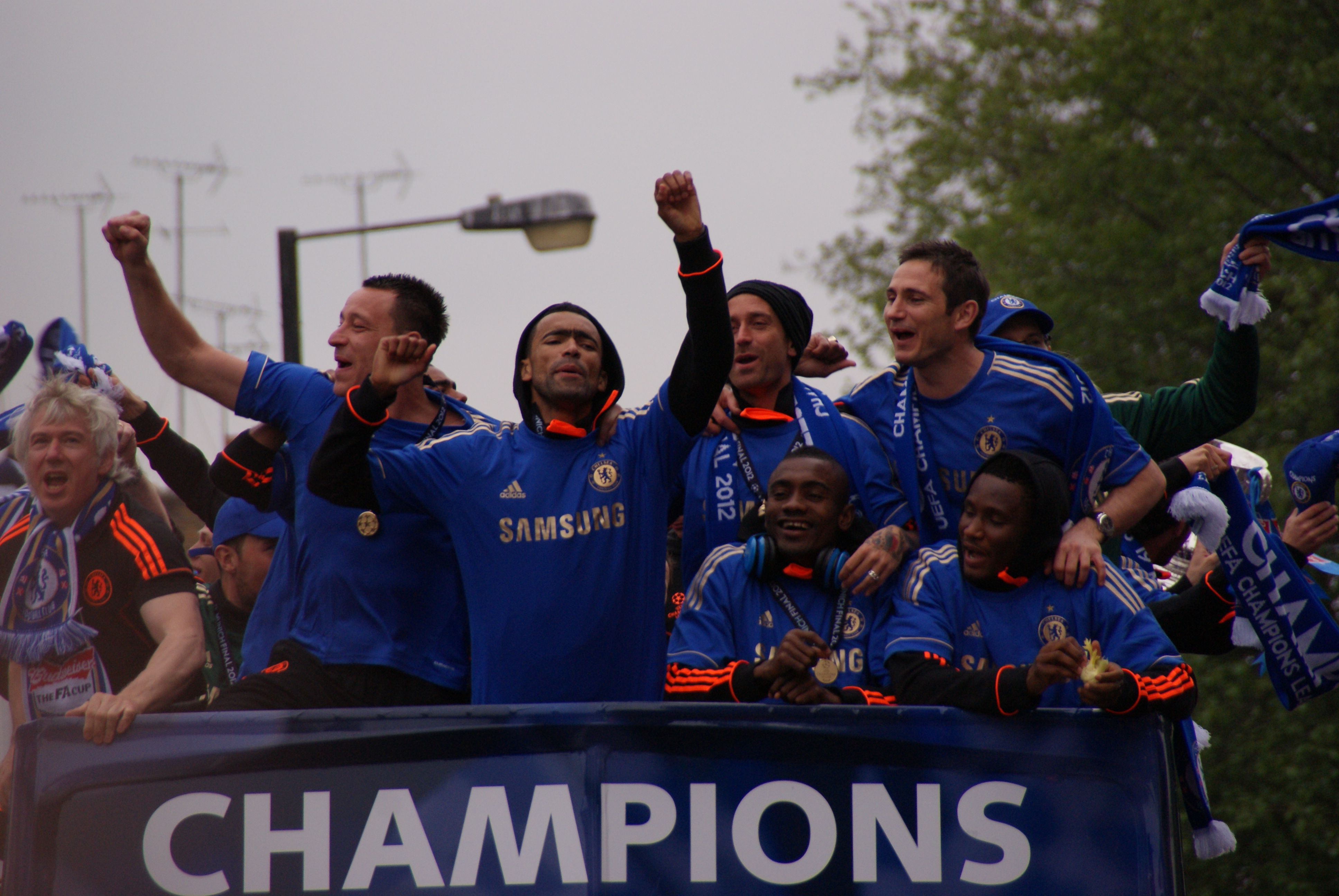 This photo was taken on Sunday 20th May 2012 during the Chelsea Football Club Parade following Chelsea's victory in the European Champions League Final.